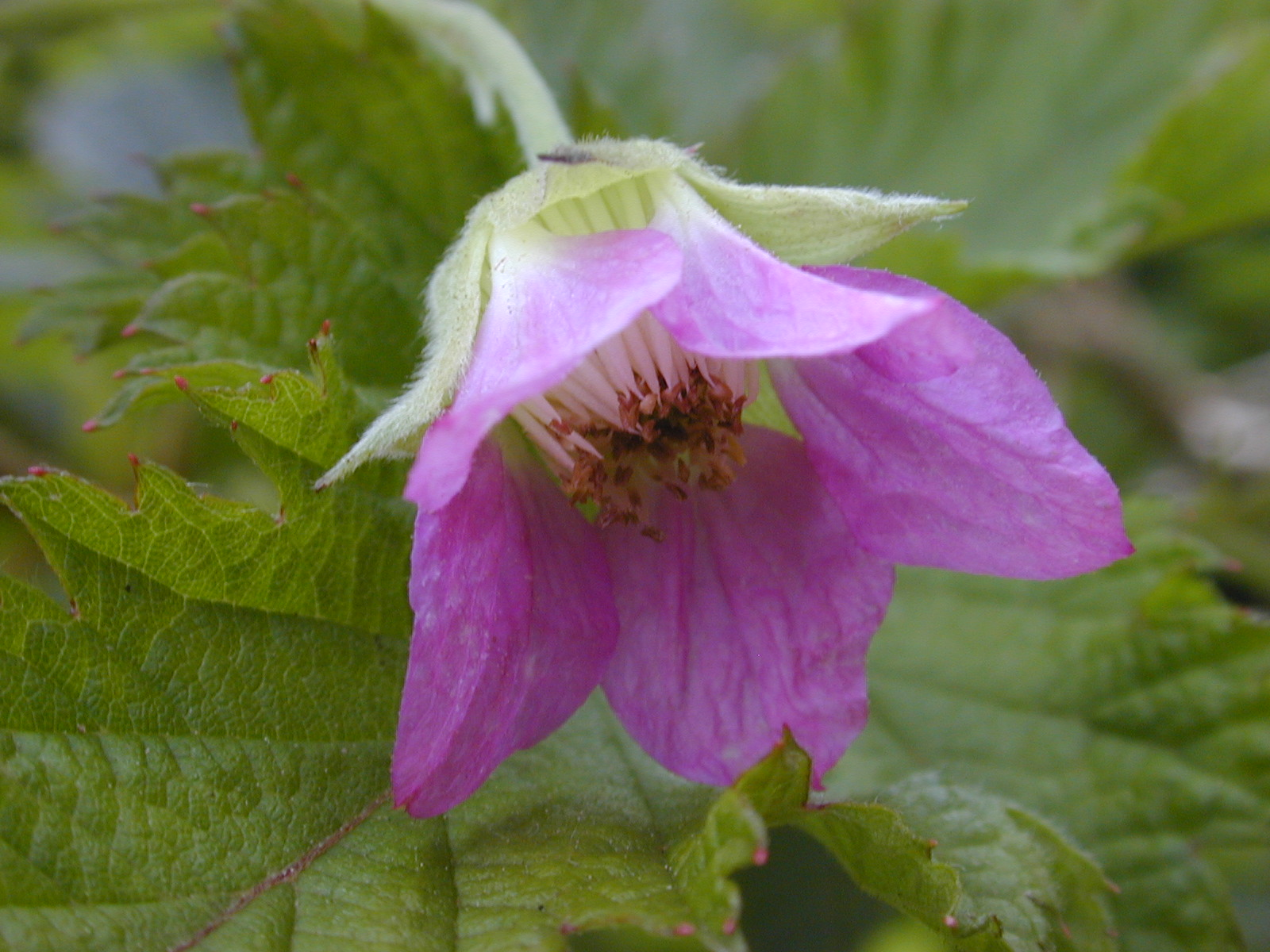 Rubus hawaiensis (flower). Location: Maui, Polipoli